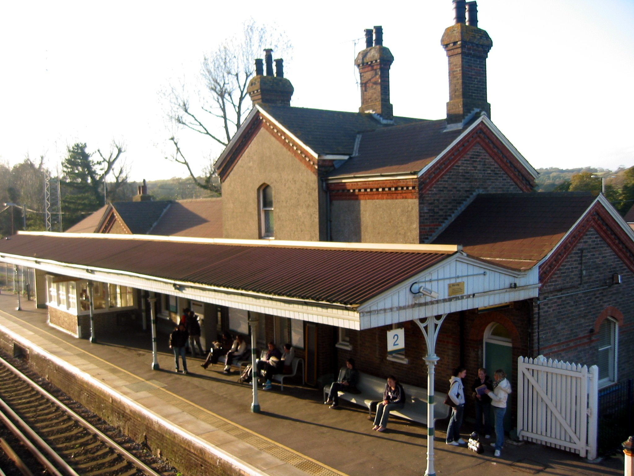 Falmer railway station, UK East Coast line